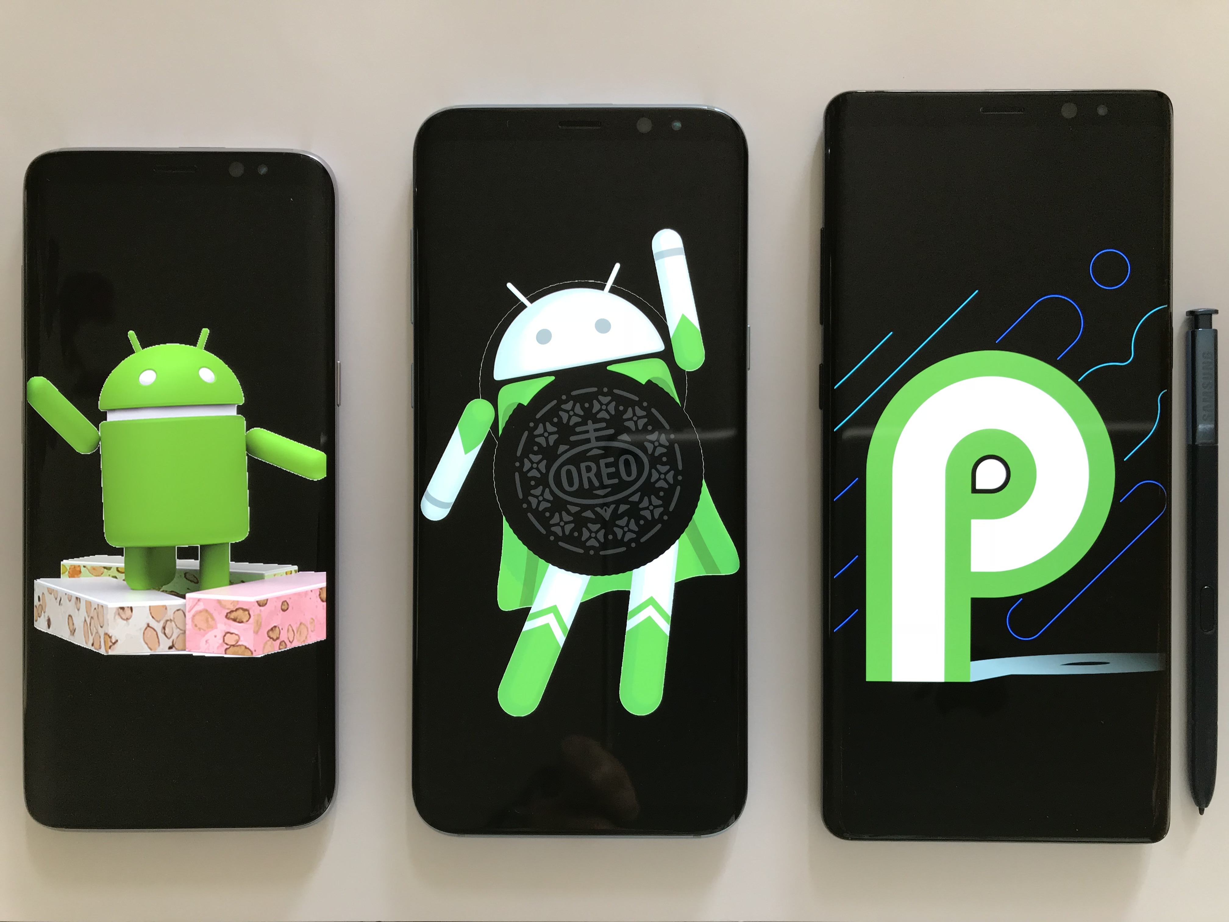 Android N,O,P